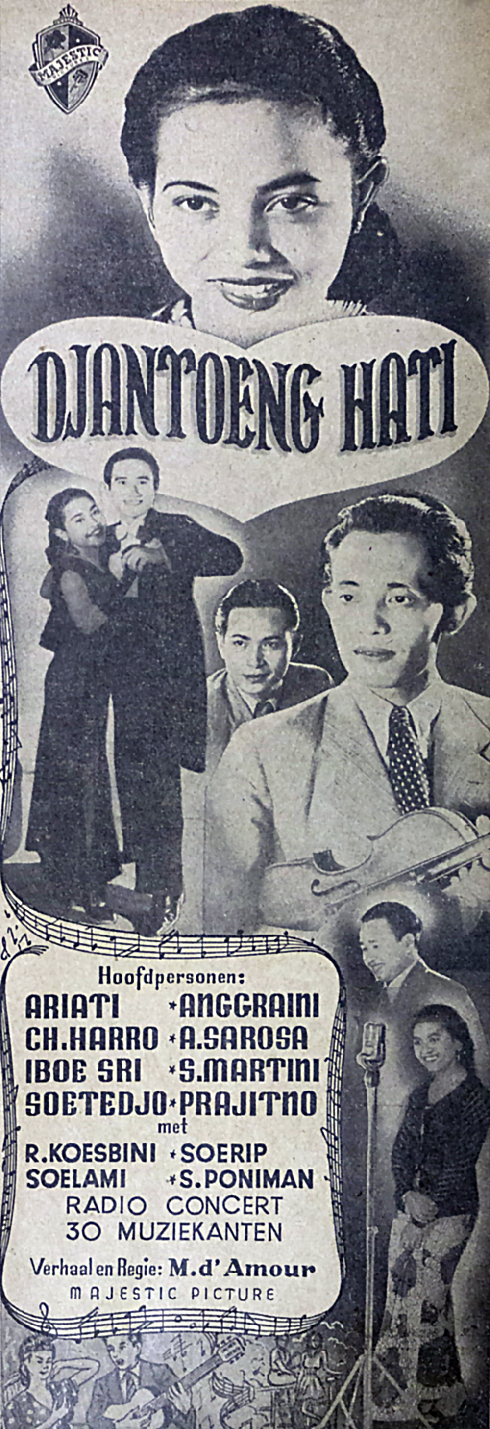 Film poster for the film Djantoeng Hati